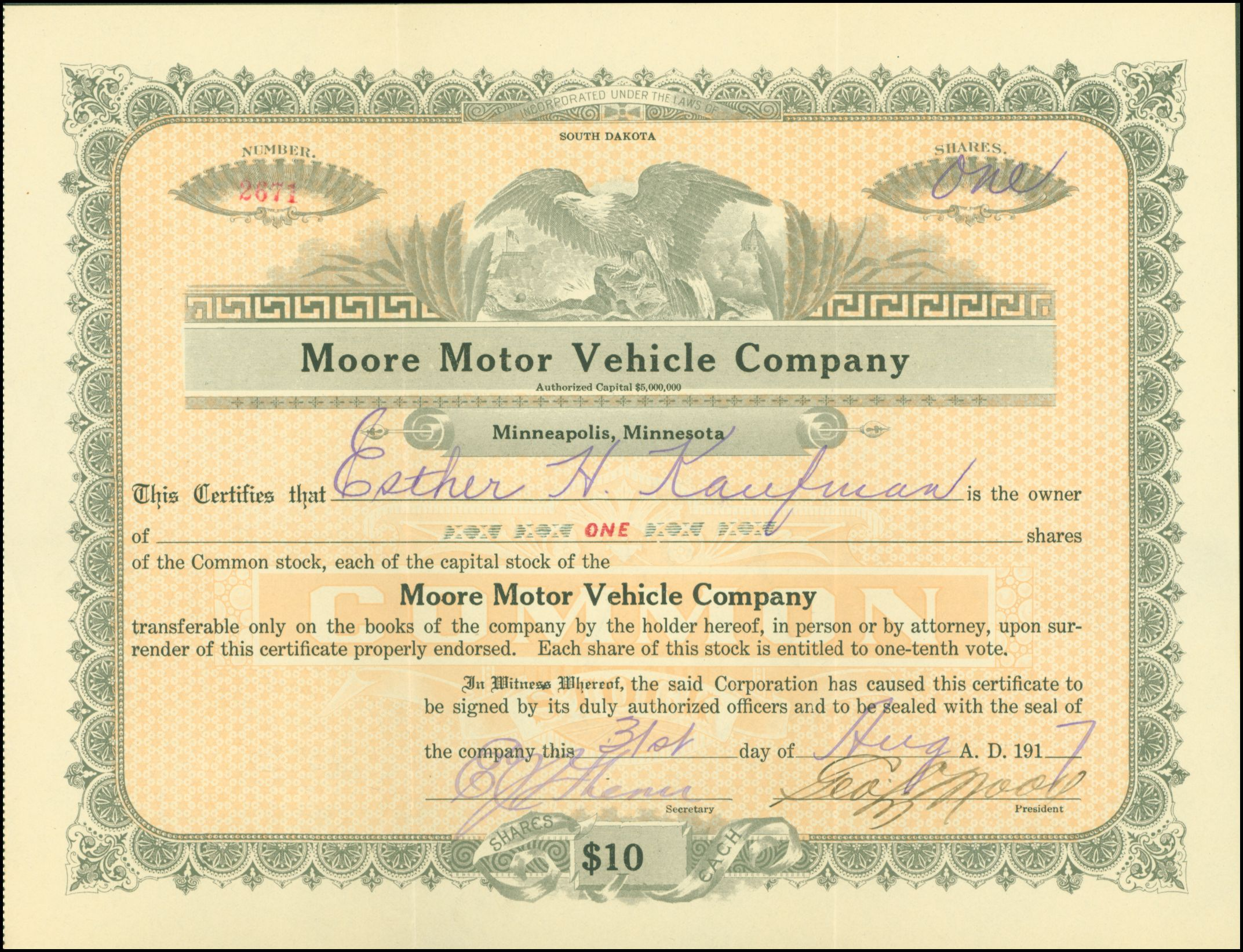 Share of the Moore Motor Vehicle Company, issued 31. August 1917